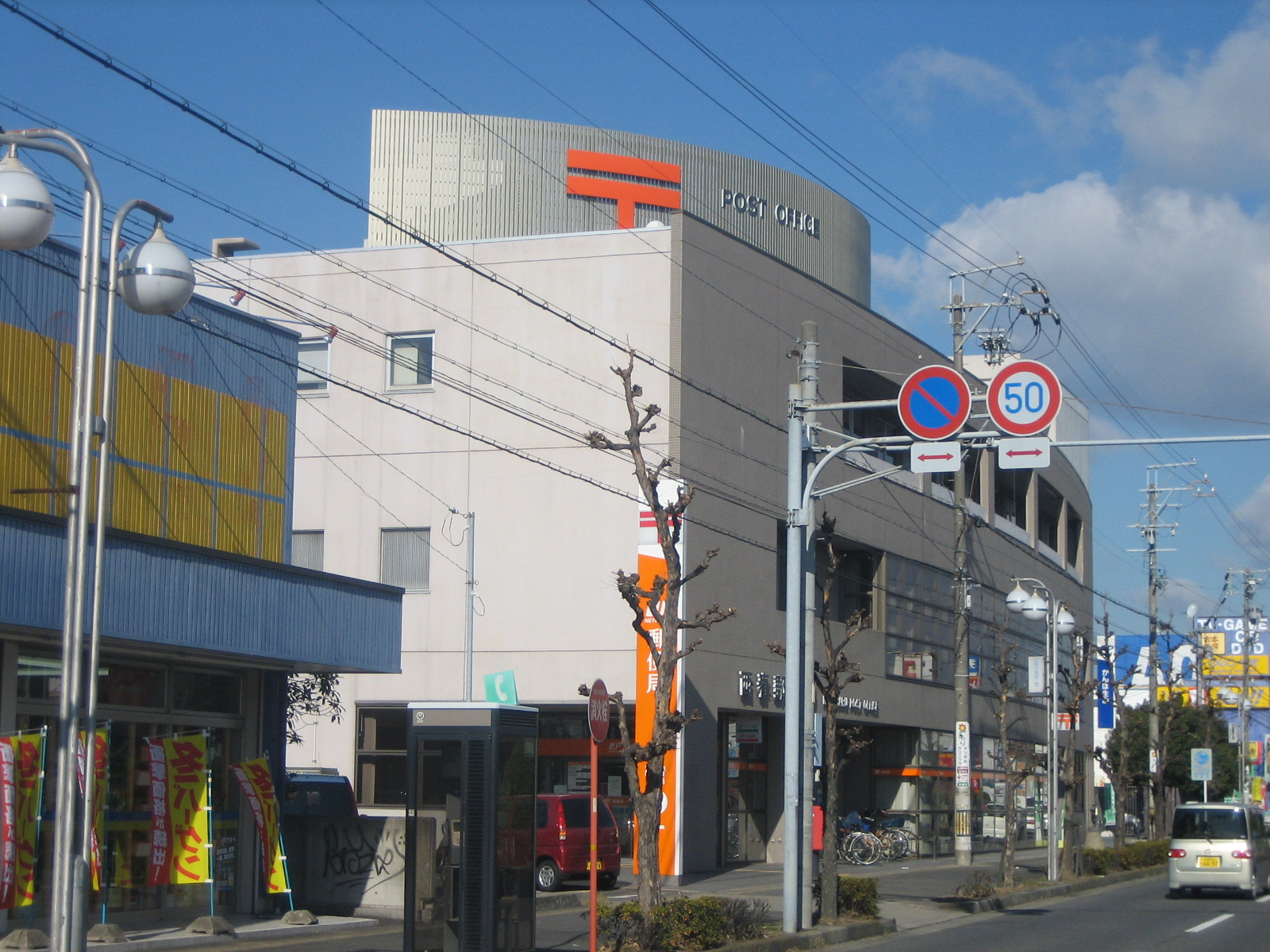 Nishiharu post office in Aichi, Japan